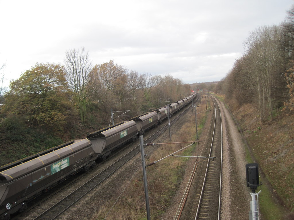 Hemsworth railway station (site), Yorkshire. Opened in 1866 jointly by the Great Northern Railway and the Manchester, Sheffield & Lincolnshire Railway on the line from Doncaster to Wakefield, this station closed in 1967. View north west towards Fitzwilliam and Wakefield. In its final form it was an island platform, hence the gap between the tracks.